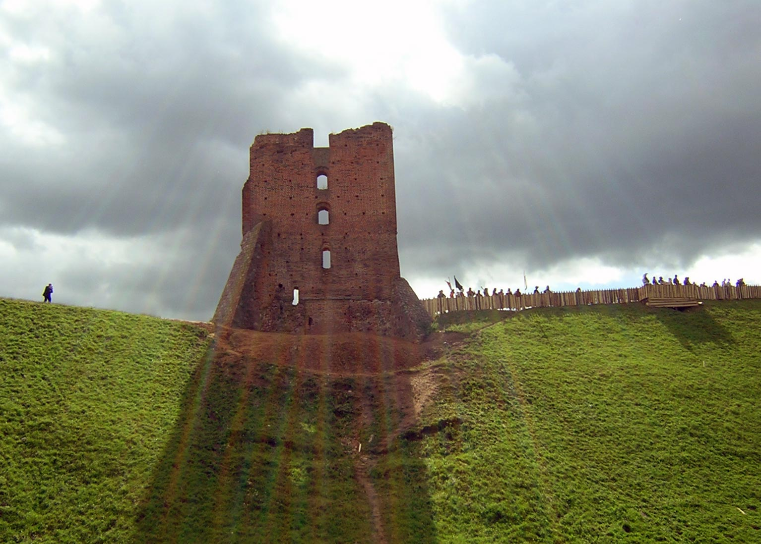 The ruins of the Shield Tower ("Shchytowka Vezha" / "Ščytoŭka Veža") of the Navahrudak Castle, a historic landmark. Photo made in 2004 during the 2004 Chivalry Tournament Fest.